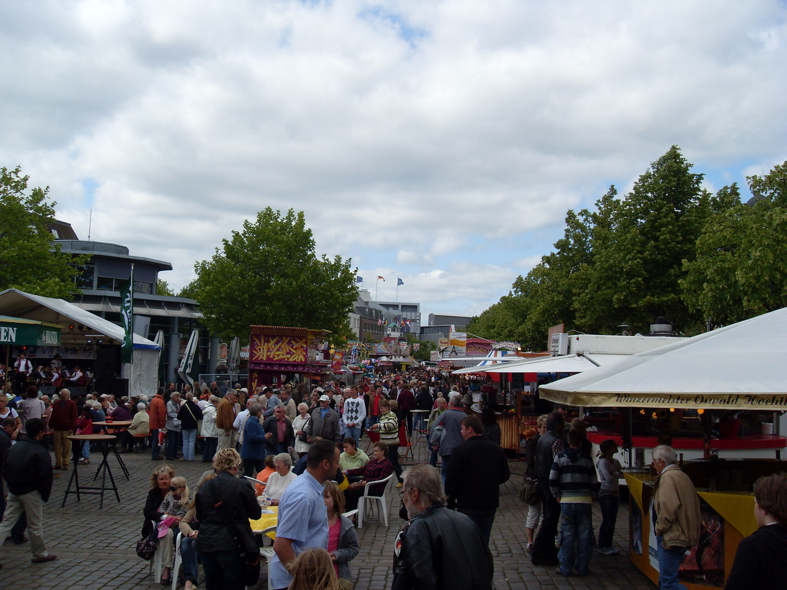 Neumünster Holstenköste 2009